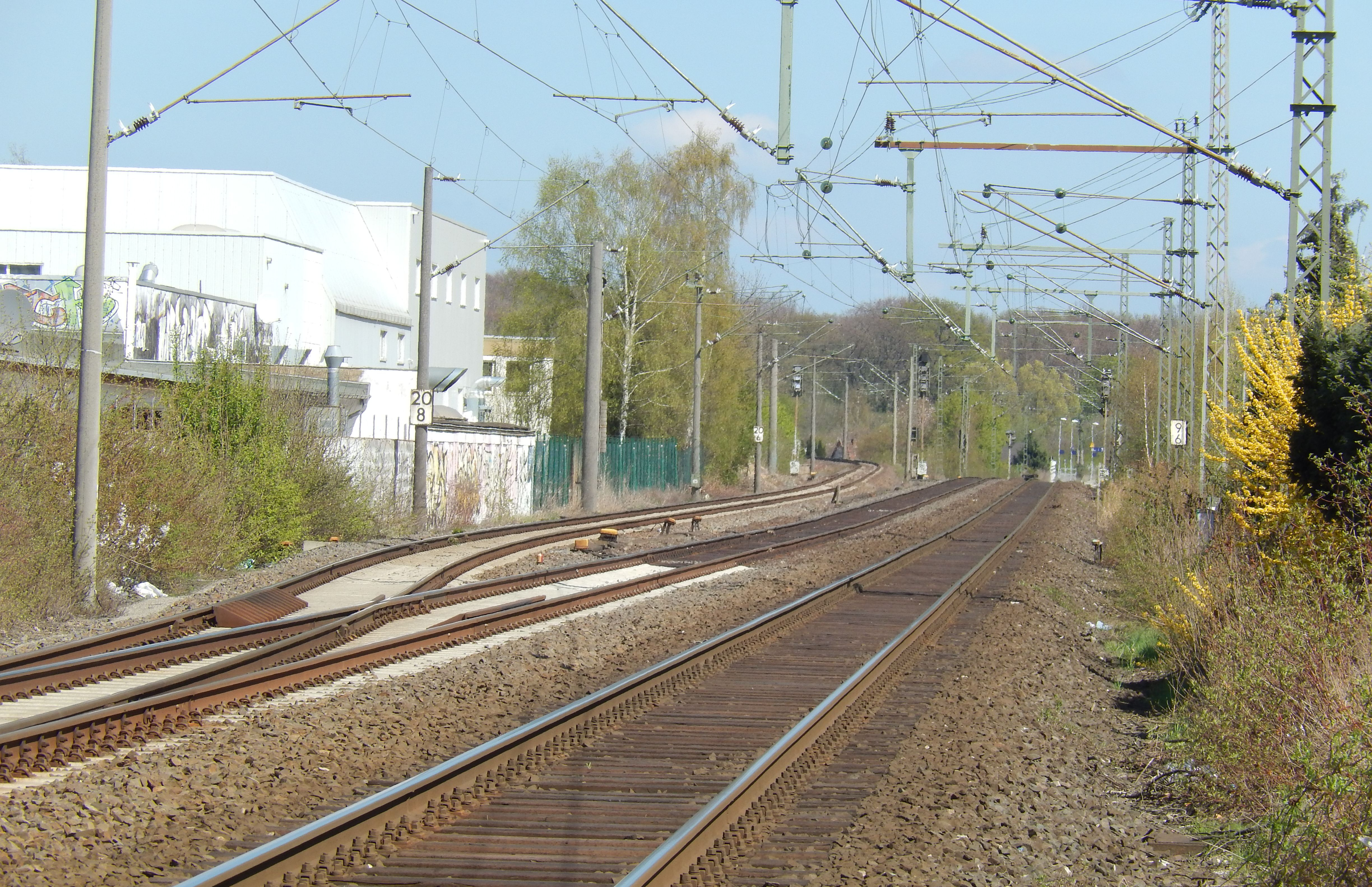 Railway line at Empelde near Hannover, Germany.